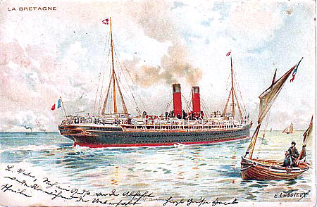 Official Compagnie Générale Transatlantique (or French Line) postcard of SS La Bretagne